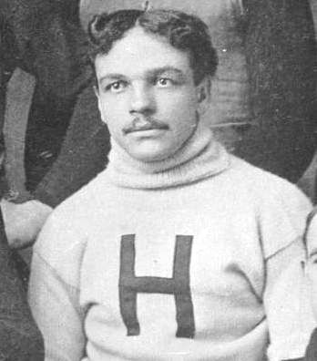 Photograph of William H. Lewis, 1892